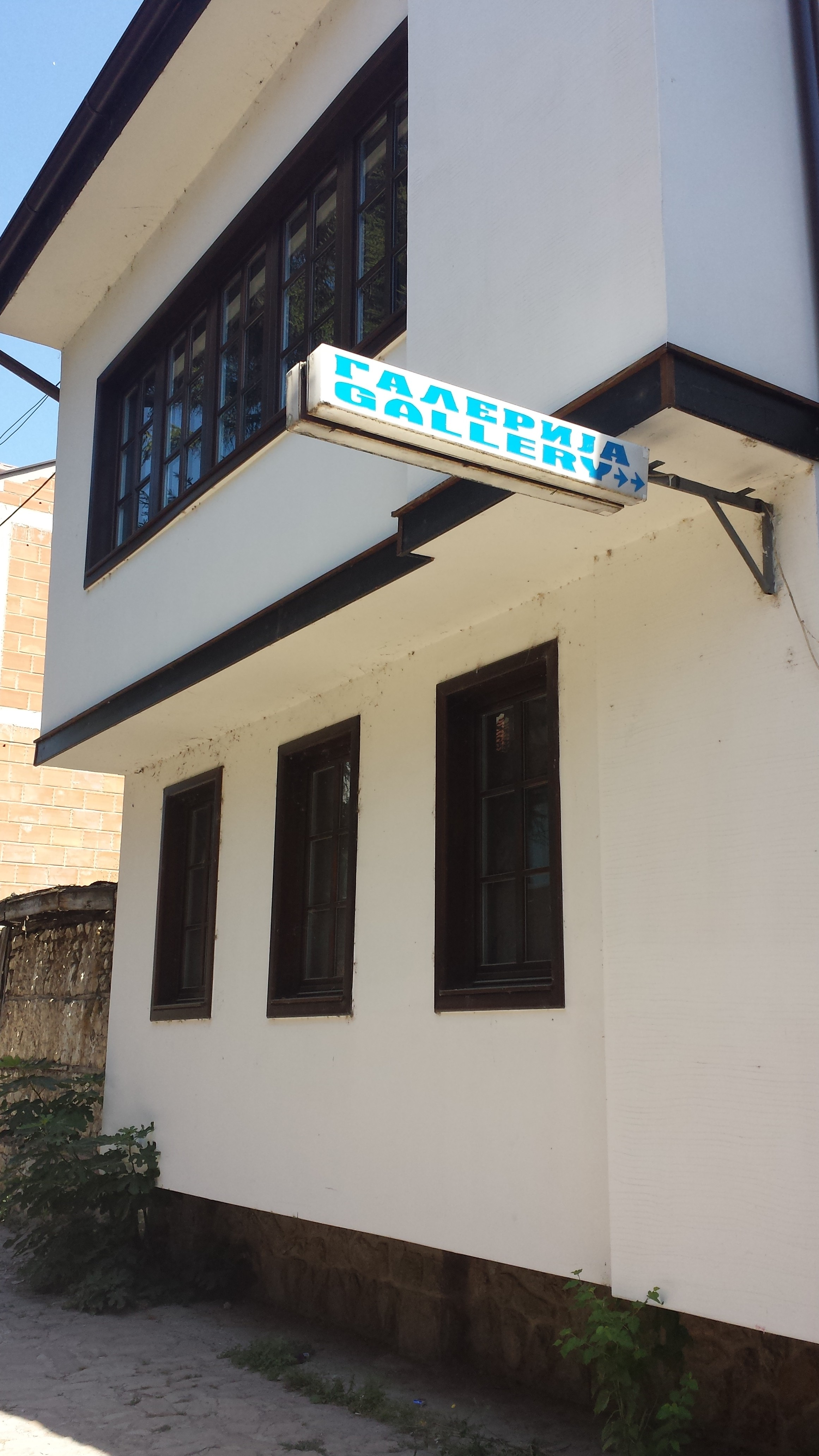 Old Struga house renovated and converted into a gallery